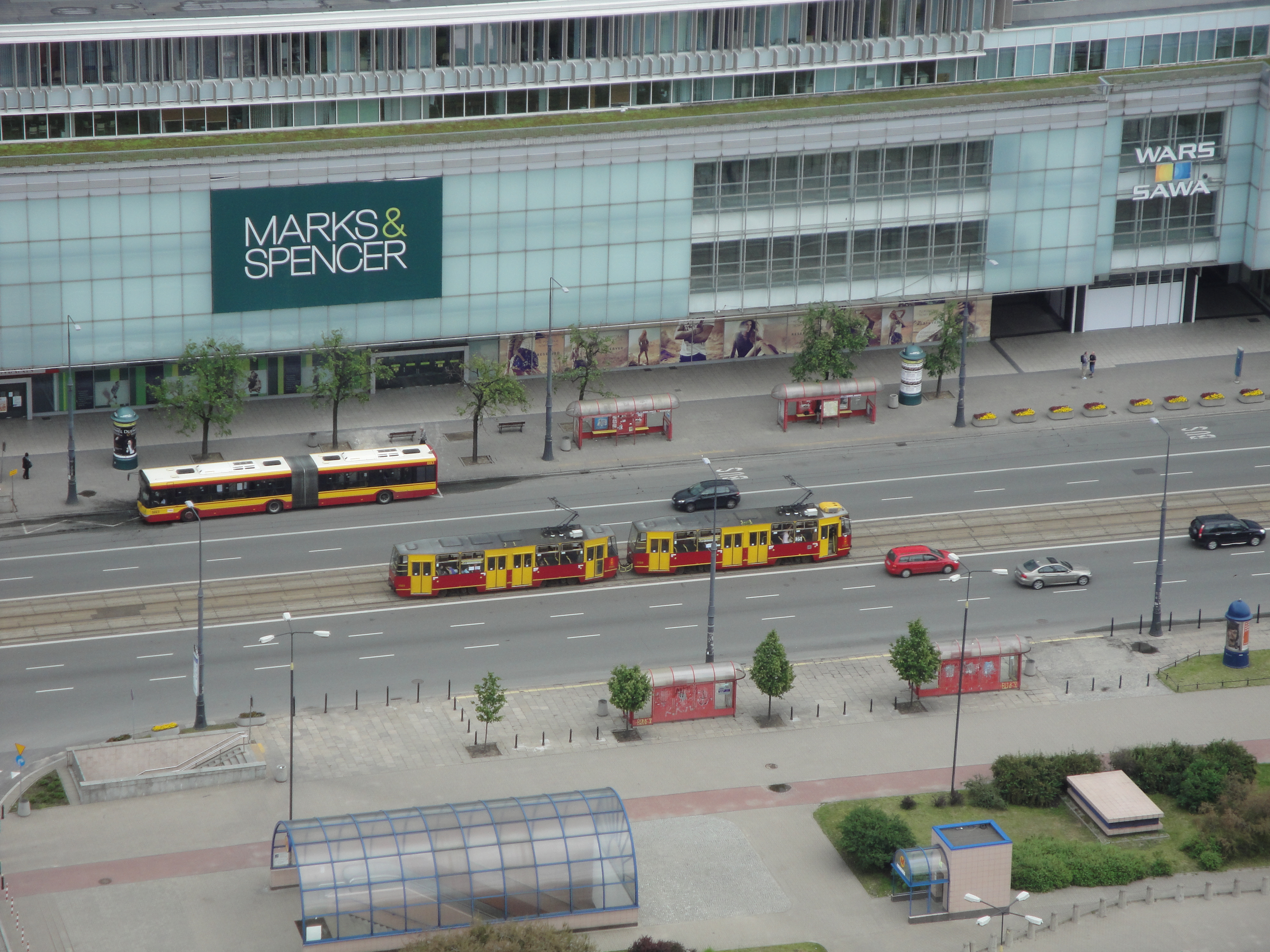 in Warsaw